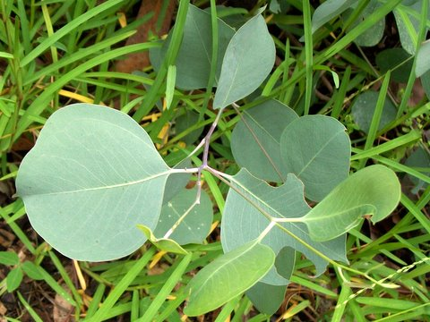 Eucalyptus albens, Chatswood Shopping Centre